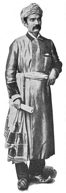 Virachand Raghavji Gandhi, Delegate representing Jainism at the 1893 World's Parliament of Religions, held during the World's Columbian Exposition in Chicago.